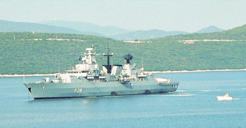 Frigate Schleswig-Holstein in Neum